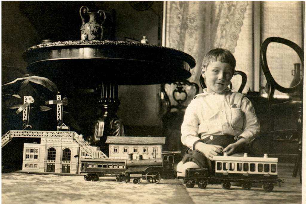 Young boy in Melbourne , Australia, playing with train set, 1920.